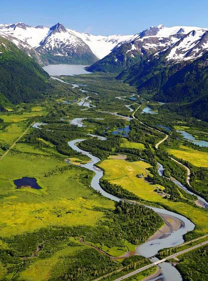 A view of the Portage Valley. Portage Creek travels through the center of the image, and the Portage Glacier Highway travels along the bottom part.